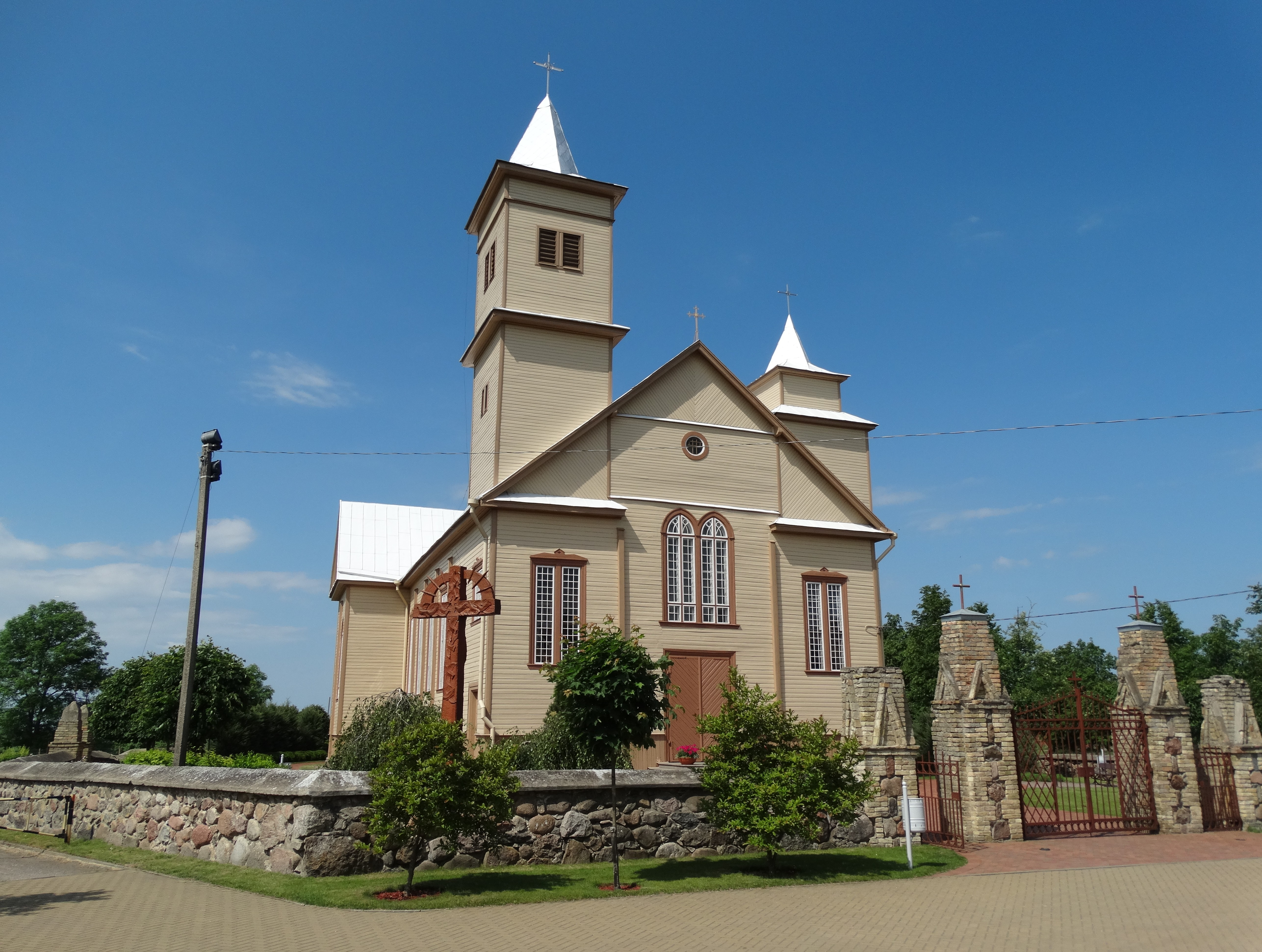 Church of Our Lady of Good Counsel, Rudamina, Vilnius District, Lithuania